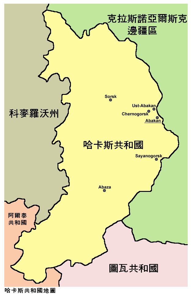 Map of the Republic of Khakassia, Russia in Traditional Chinese.